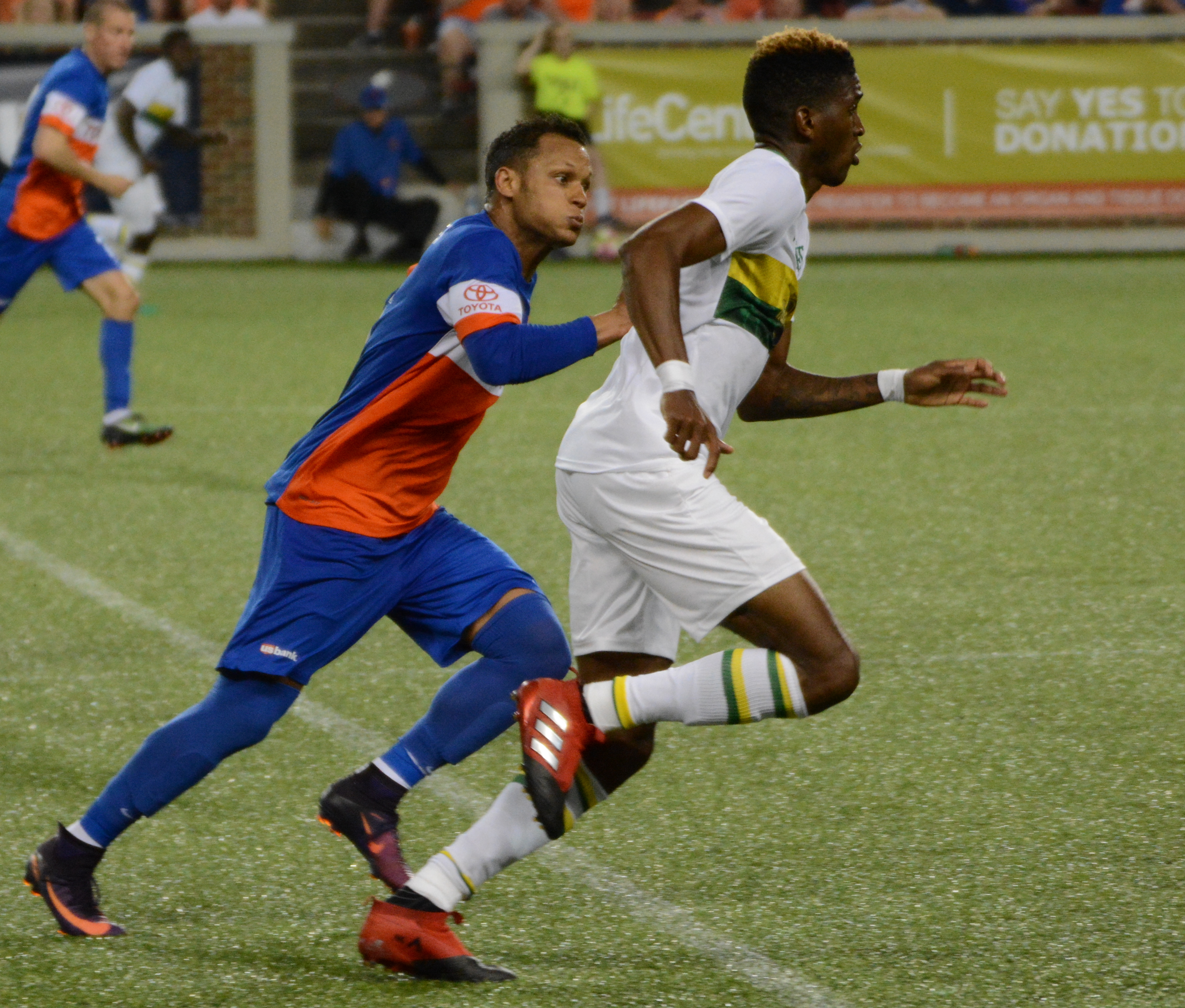 Kenney Walker, Damion Lowe Taken during a match between FC Cincinnati and Tampa Bay Rowdies at Nippert Stadium in Cincinnati, USA on April 19, 2017.